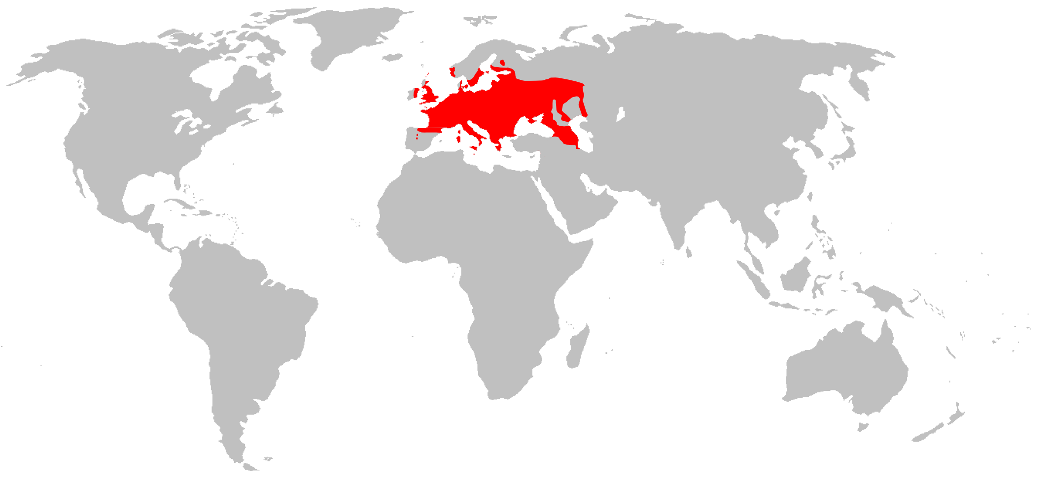 Distribution range map of Pipistrellus nathusii.